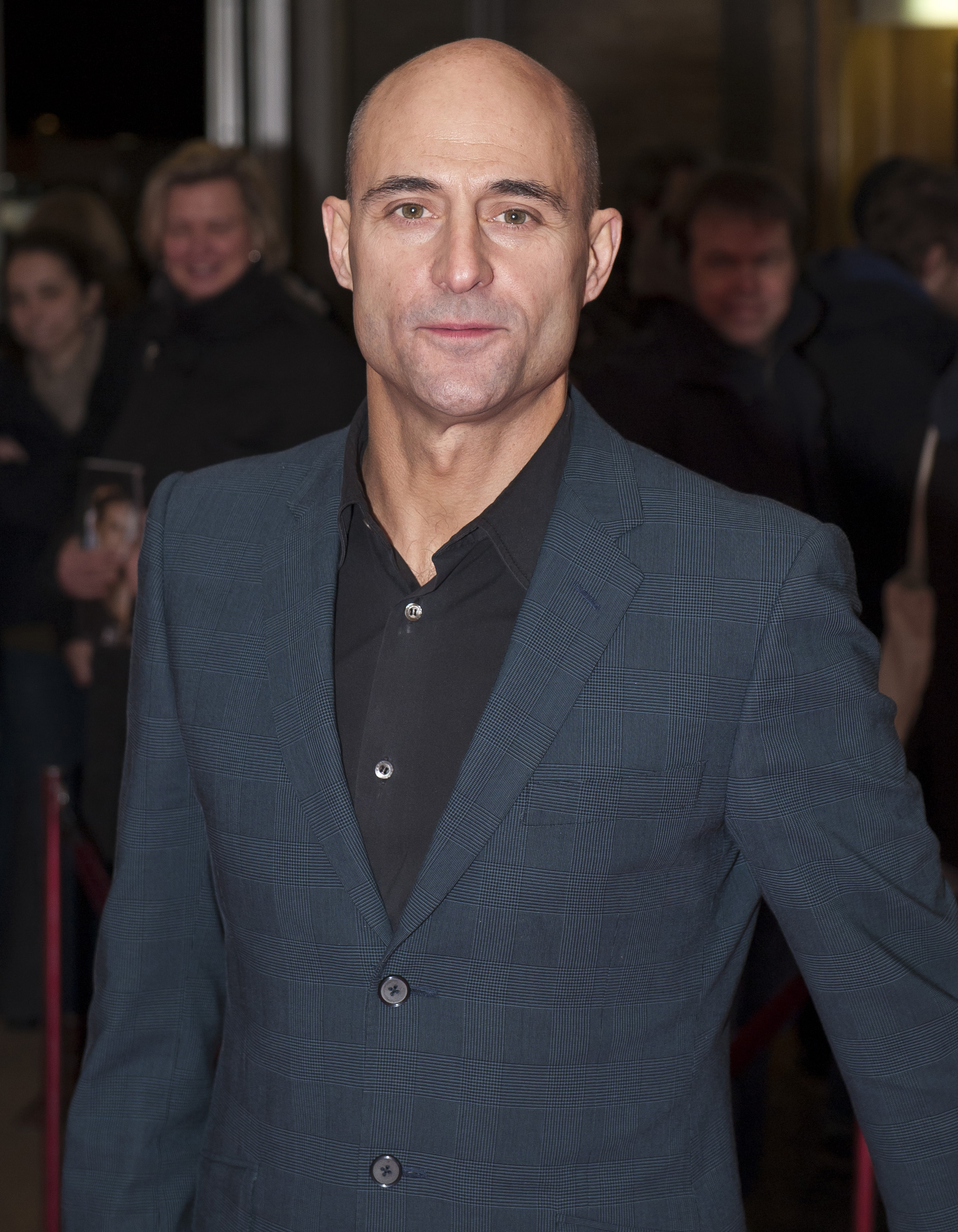 English actor Mark Strong attending the premiere of "The Guard" at the cinema "International", Berlin, Berlinale 2011